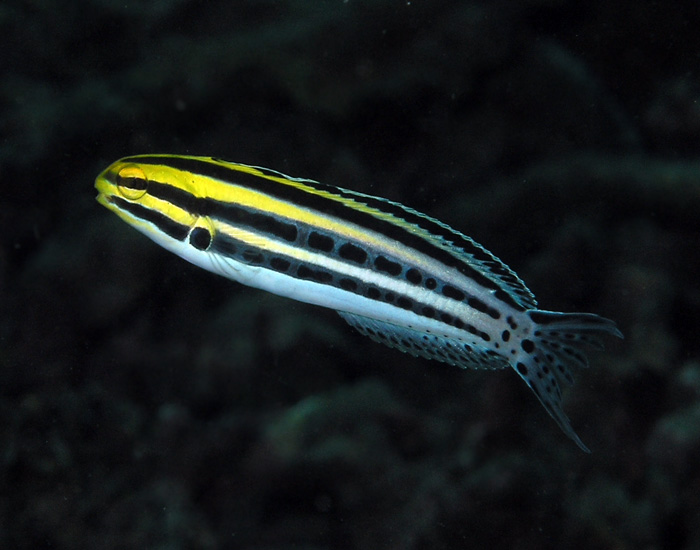 Striped blenny